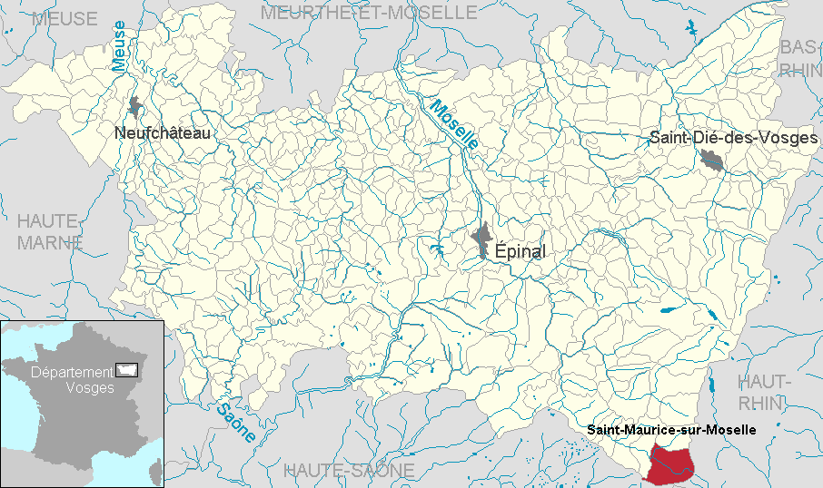 Saint-Maurice-sur-Moselle in the department of Vosges, Lorraine, France